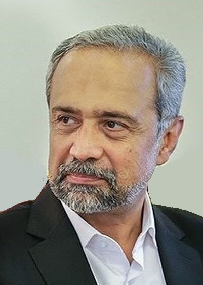 Mohammad Nahavandian, Chief of Staff of Iranian President